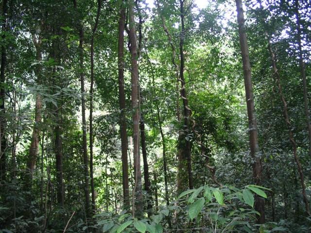 Tropical rainforest in the Bukit Timah Nature Reserve, Singapore.